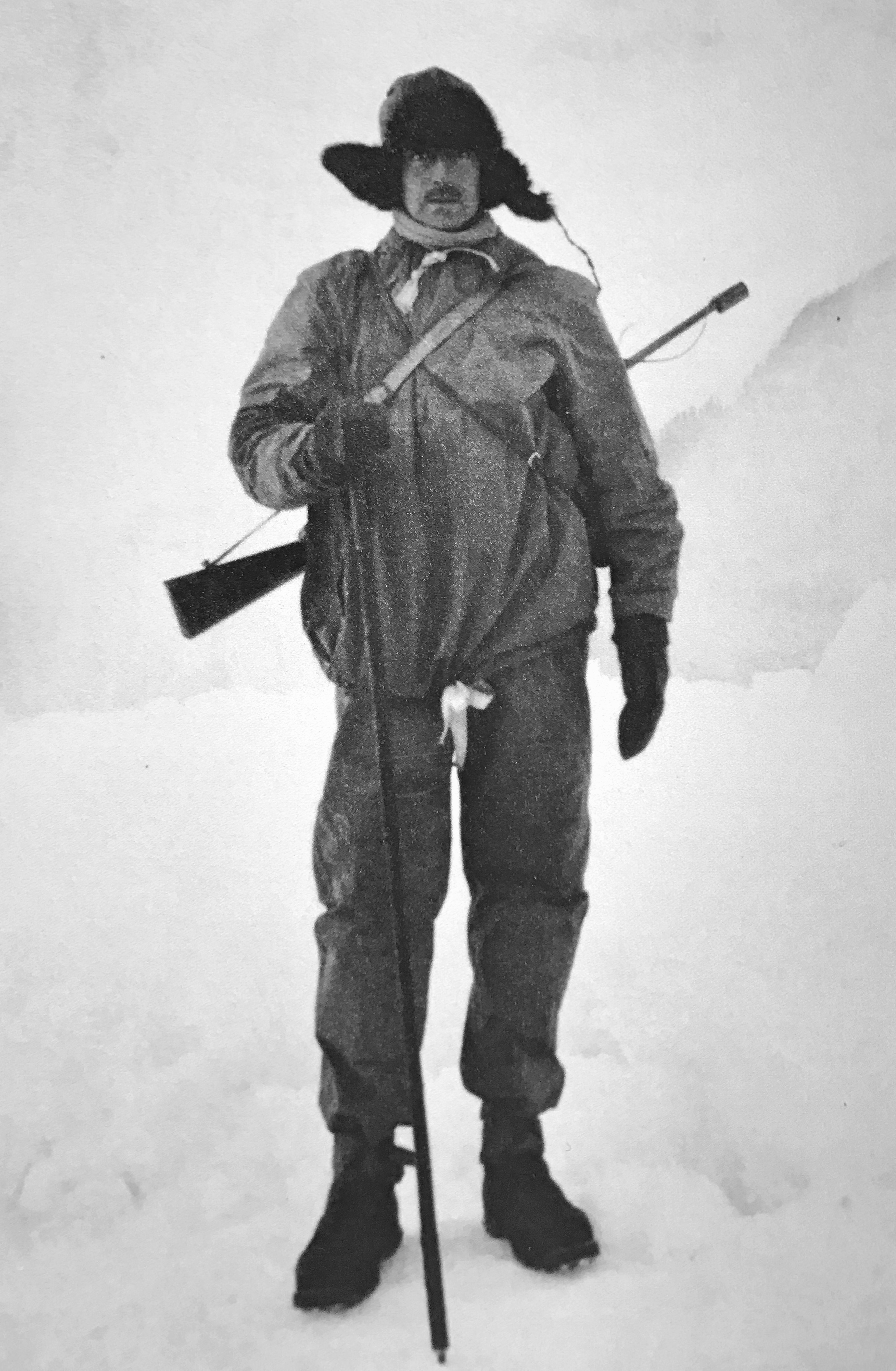 Ignacio Fernández de Henestrosa y Gayoso de los Cobos, 16th Marquess of Camarasa (Grandee of Spain) and 18th Count of Ribadavia wearing Artic equipment and clothing manufactured by Abercrombie & Fitch during an expedition to the Artic Circle in 1921. He was accompanied by the Duke of Medinaceli and the Marquess of Almenara.